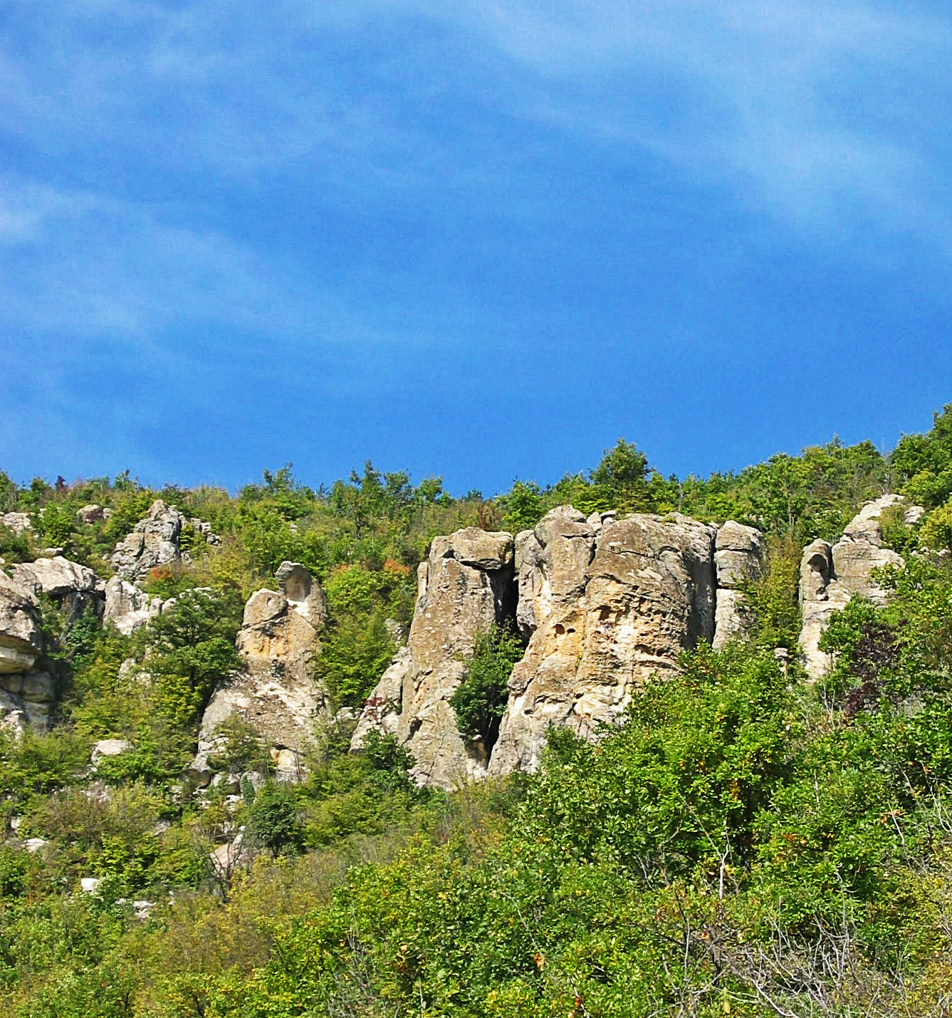 Tangardak_kaya_Womb_cave_Entrance_East_Rhodopes_Bulgaria